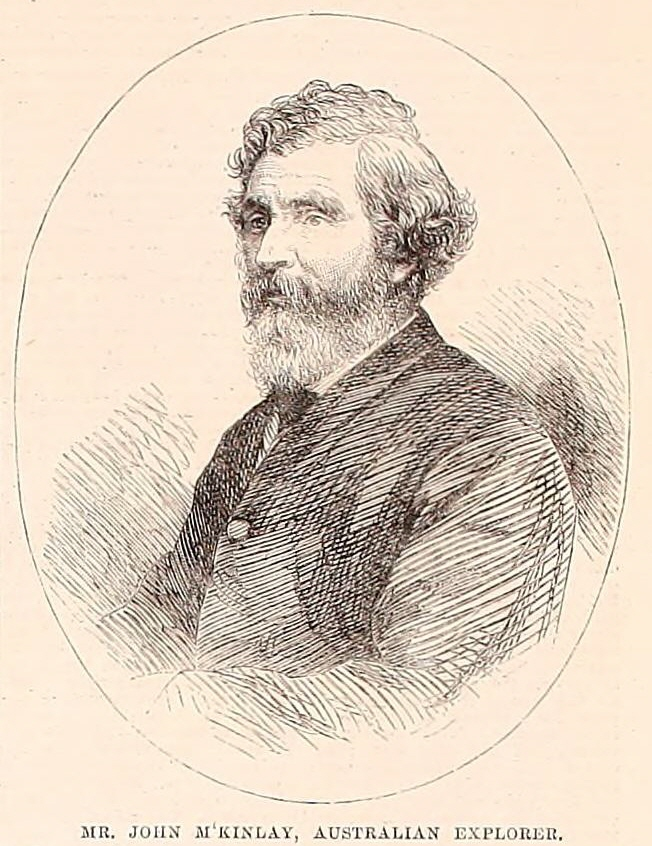 John McKinlay (26 August 1819 – 31 December 1872)